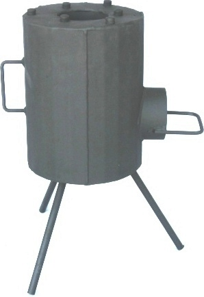 Picture of the Grover Rocket Stove that I sell. Used for camping, hiking, preparedness and other outdoor activities.